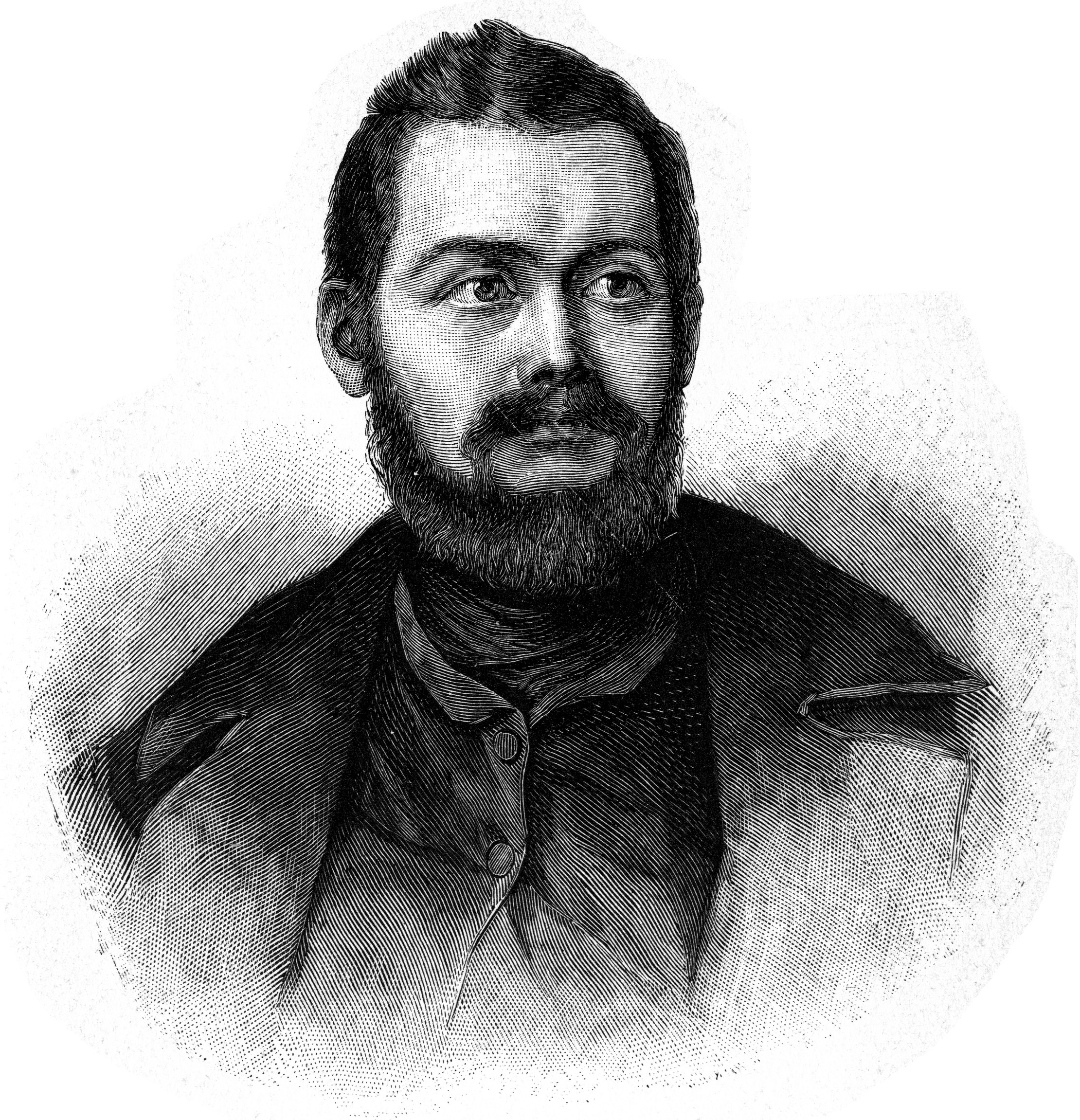 Heinrich Laube. Steel engraving on base of an oil painting by Friedrich Pecht from 1845